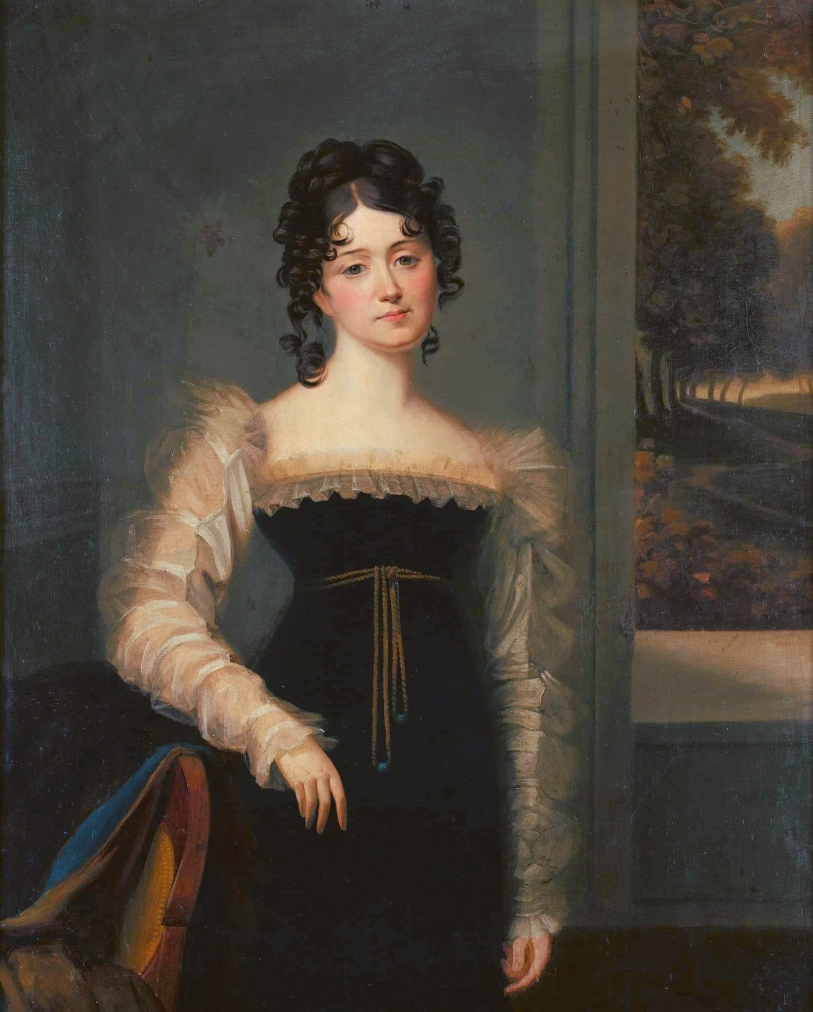 Polish Countess Zofia Zamoyska nee Czartoryska (1779-1837)